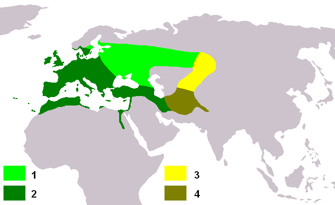 Carduelis carduelis map Carduelis carduelis carduelis 1 summer 2 all year Carduelis carduelis caniceps 3 summer 4 all year Compiled from: Harrison, Atlas of the Birds of the Western Palaearctic Mullarney et al., Collins Bird Guide Snow & Perrins, Birds of the Western Palearctic concise edition